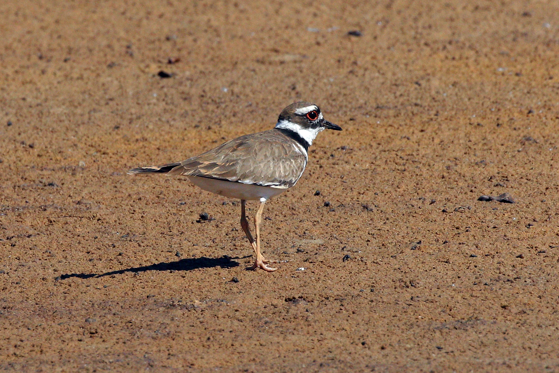 Killdeer (Charadrius vociferus ternominatus), Cuba